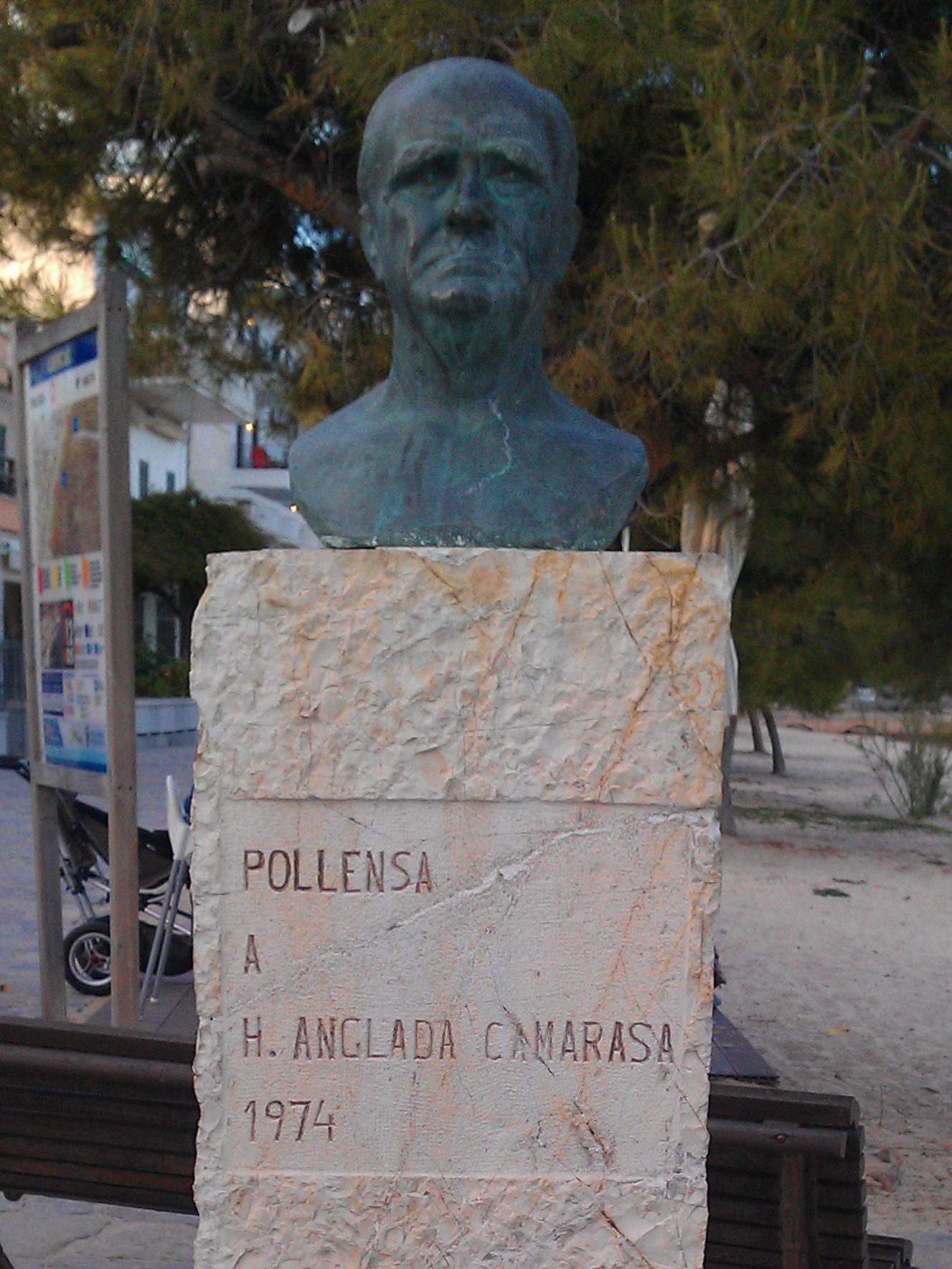 Bronze bust of Hermenegildo Anglada Camarasa at Port de Pollença, Majorca.